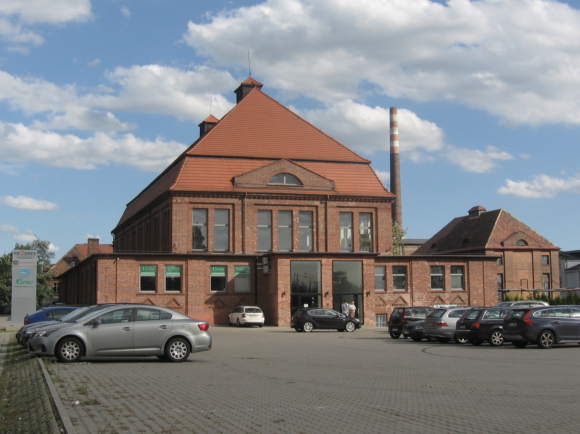 The building (ger. Zechenhaus) of former zinc and lead ore mine Marchlewski (ger. Deutsch-Bleischarleygrube, since 1961 part of ZGH Orzeł Biały) in Bytom, Siemianowicka street, Poland, 2017.